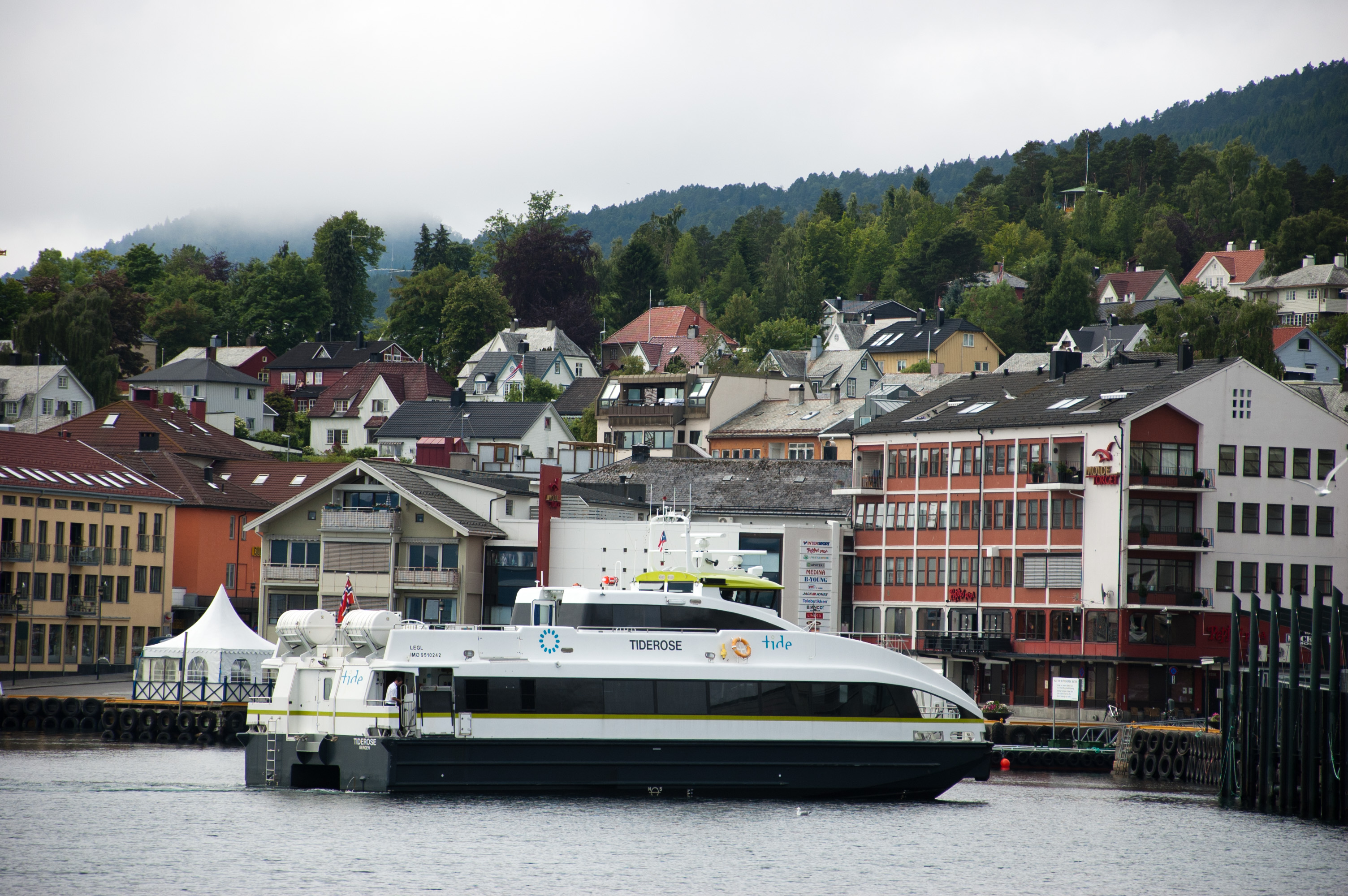 Tiderose, Molde, Norway